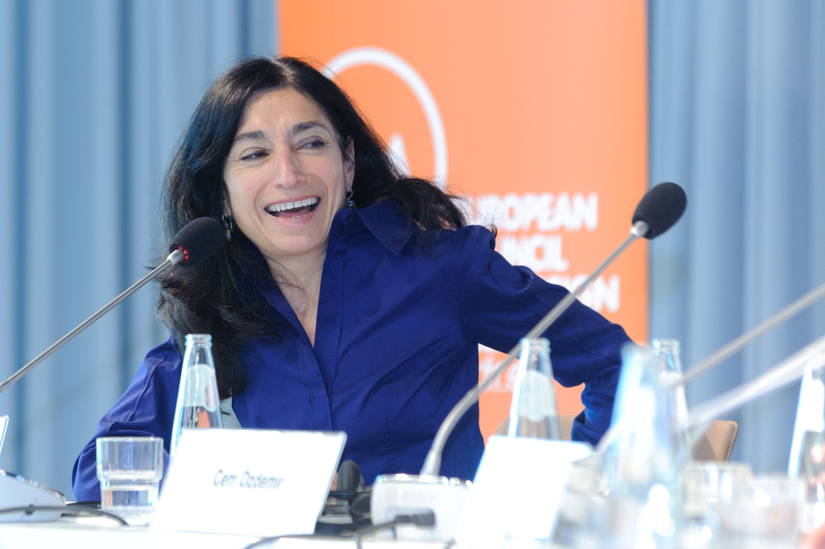 Geneive Abdo (Direktorin, Iran Programm, The Century Foundation, Washington DC)